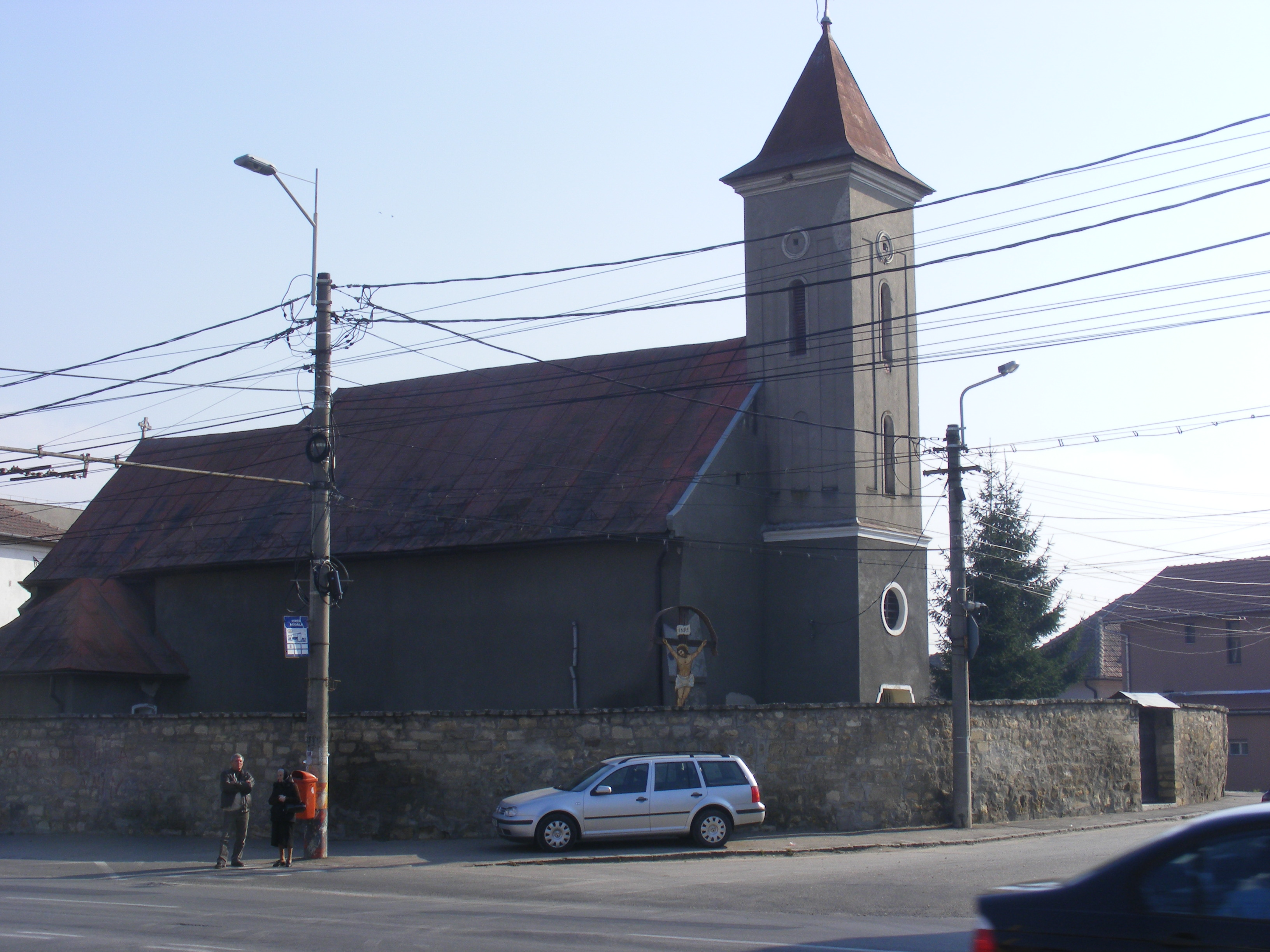 The romano catholic church of Szamosfalva (Someşeni), today a part of Kolozsvár (Cluj Napoca)